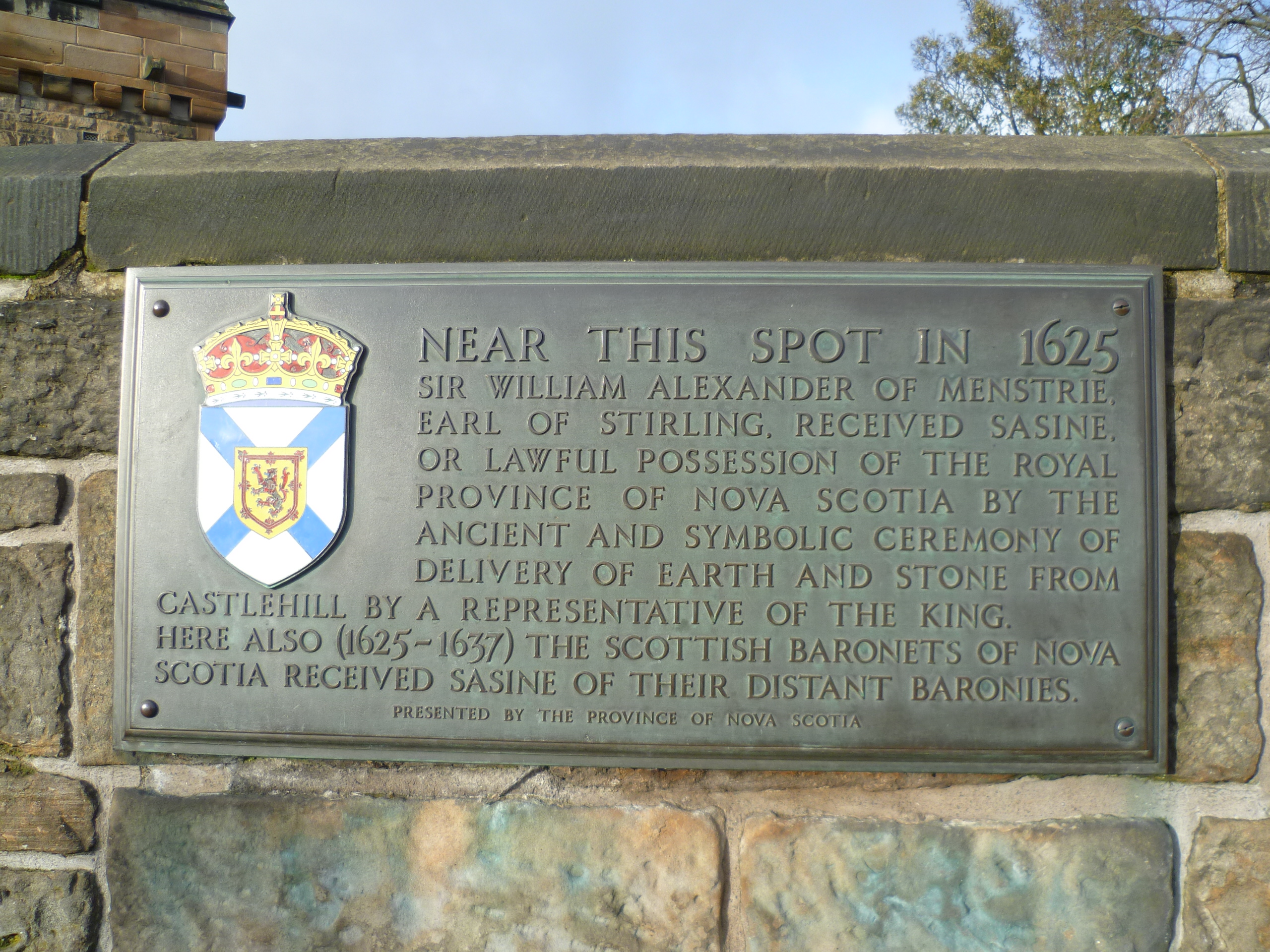 A plaque recalling the ceremony which gave rise to the legal fiction that part of the Esplanade belongs to Nova Scotia. Well, it did symbolically when soil from the colony would be strewn on the Esplanade for the duration of the ceremony.